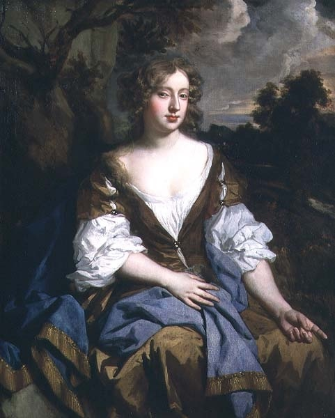 Portrait of Mary Moll Davis (1660 - 1698), actress and mätresse